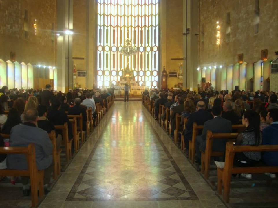 Cathedral of Our Lady of Assumption, Aleppo, 20 April 2014.